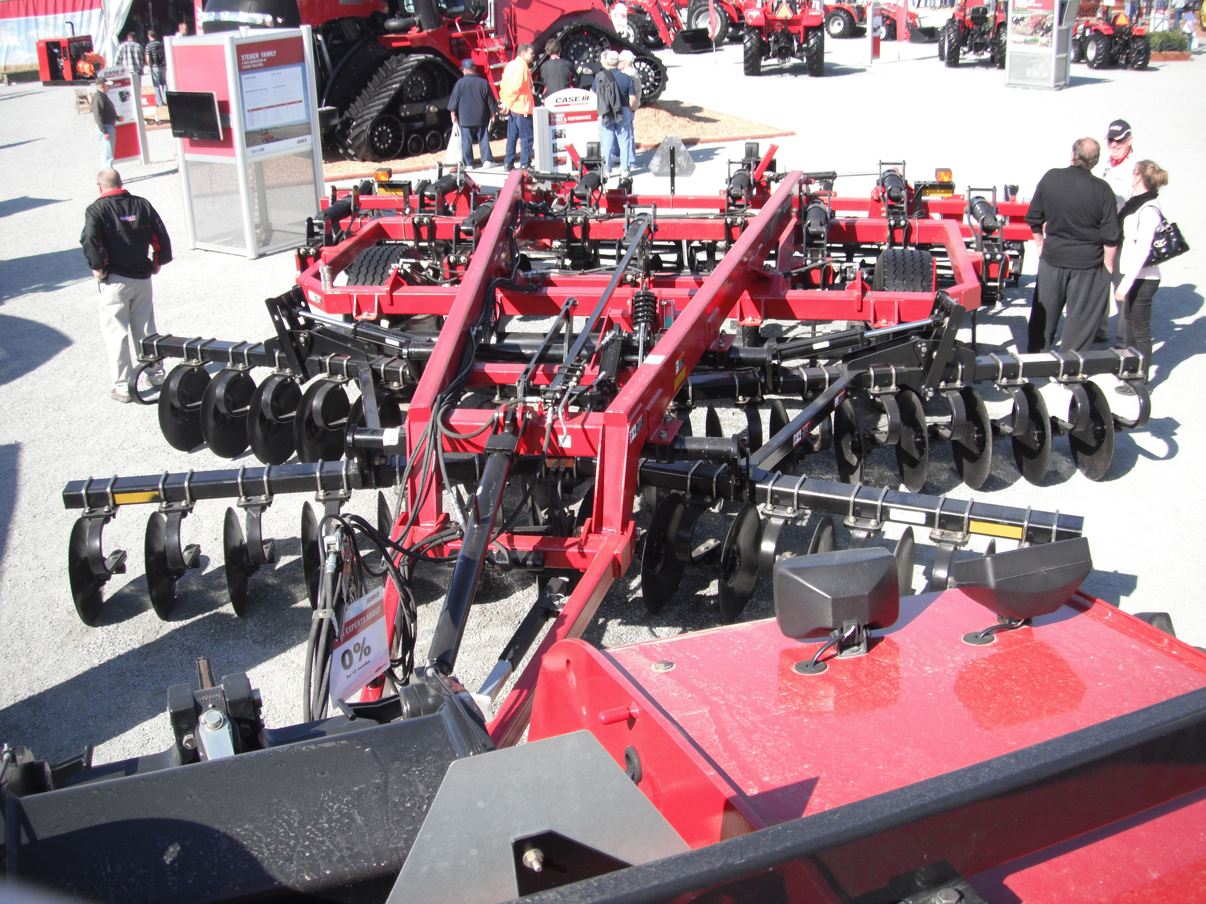 A Case IH ecolo-tiger 870 Disc Ripper disc harrow viewed from above. Notice the numerous hydraulic controls on this implement. This implement was attached to a Case IH tractor at the World Ag Expo 2011.